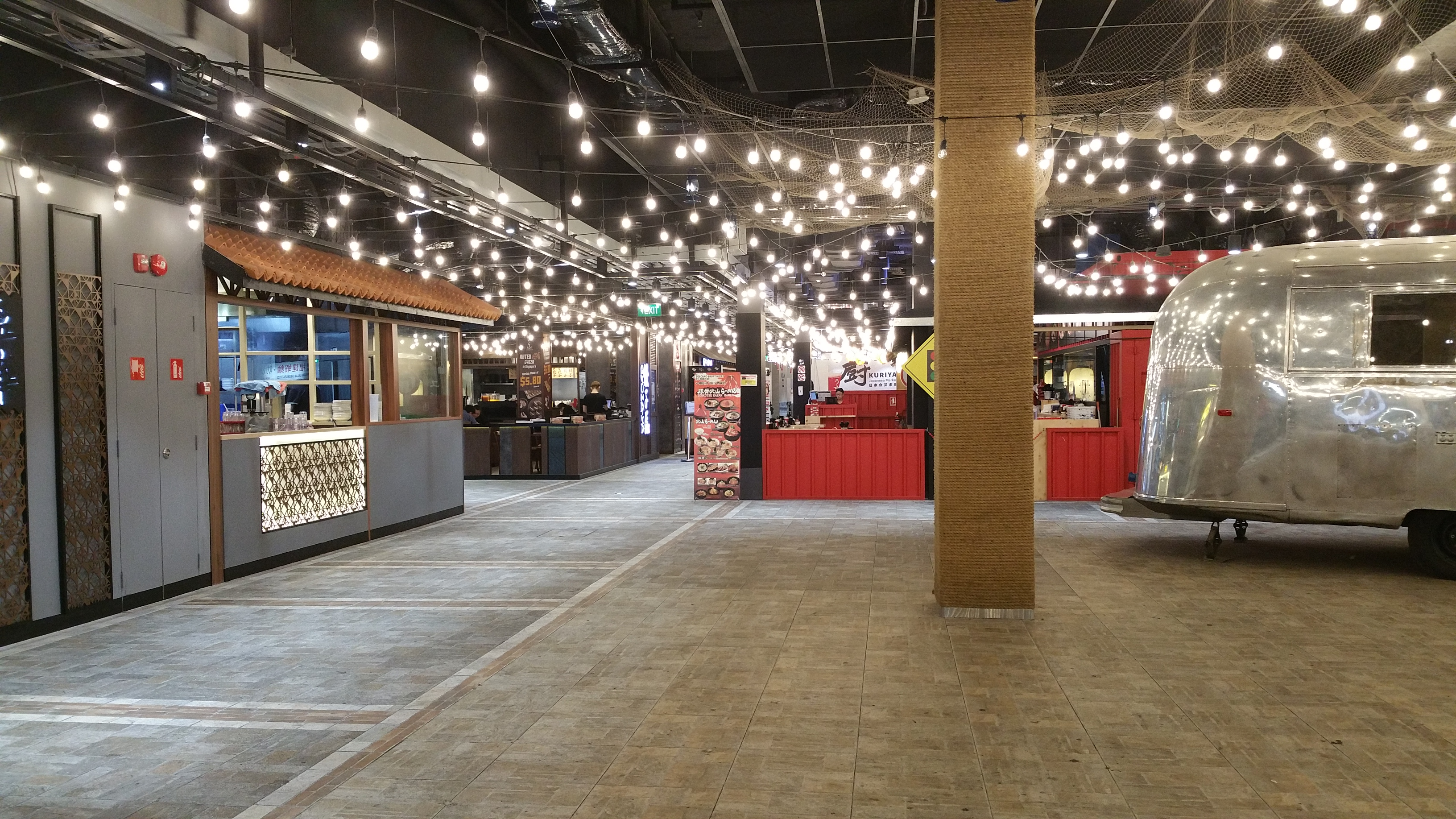 An area of dining at Makan Town